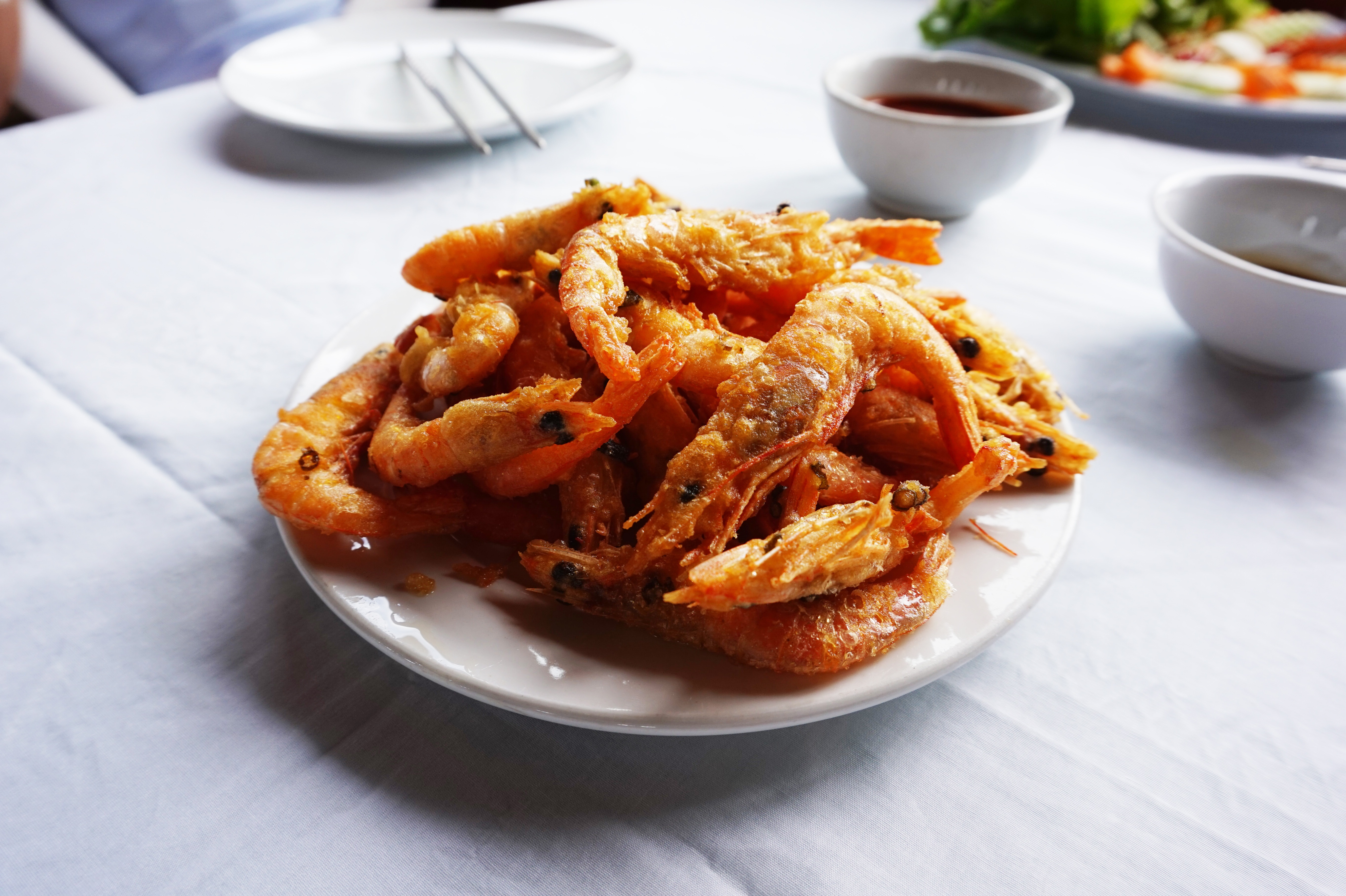 Fried shrimp